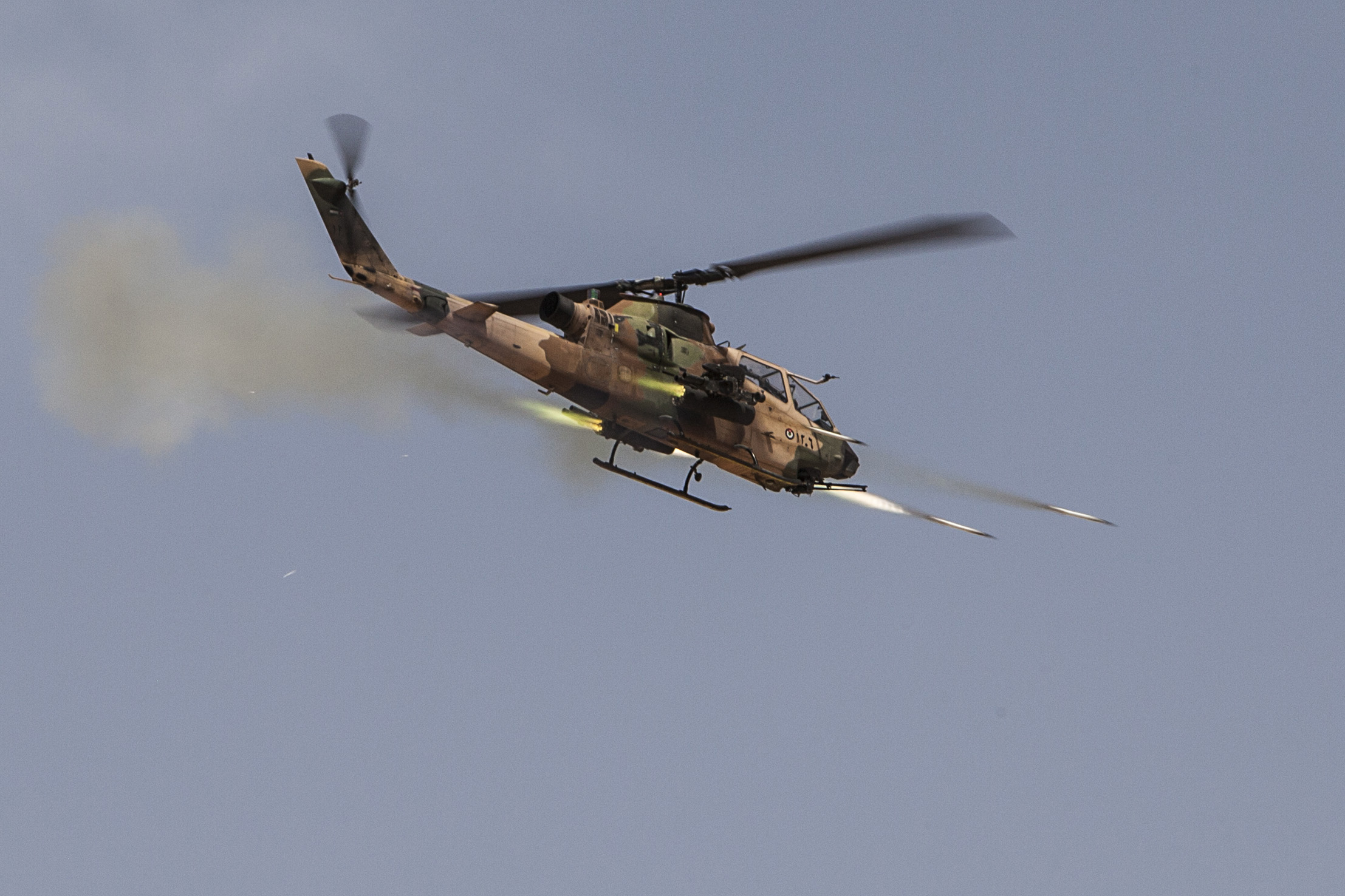 Cobra helicopter during action